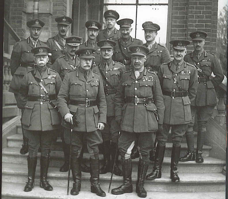 First row, left to right: Plumer, Haig, Rawlinson Second row, left to right: Byng, Birdwood, Horne Third row,left to right: Lawrence, Kavanagh, White, Percy, Vaughan, Montgomery, Anderson.